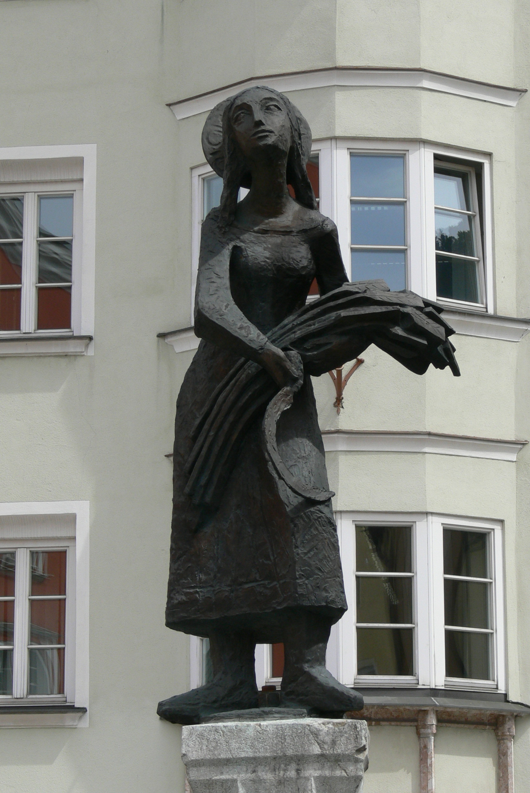 Rattenberg (Tyrol). Fountain with statue (1970) of Notburga of Rattenberg.